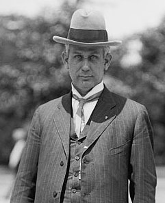 Kentucky Congressman Ben Johnson